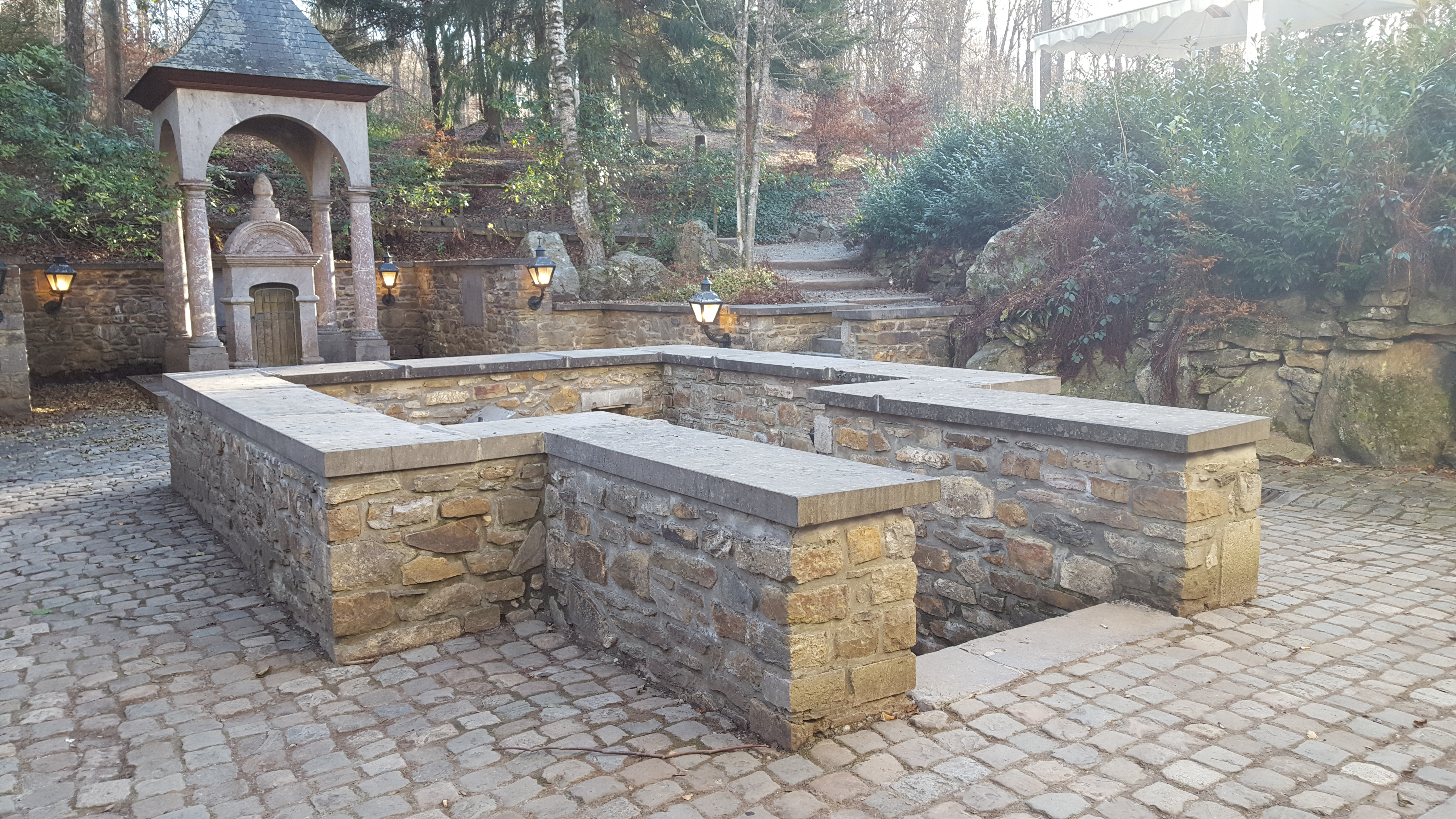 Source de la Géronstère, Spa, Belgium